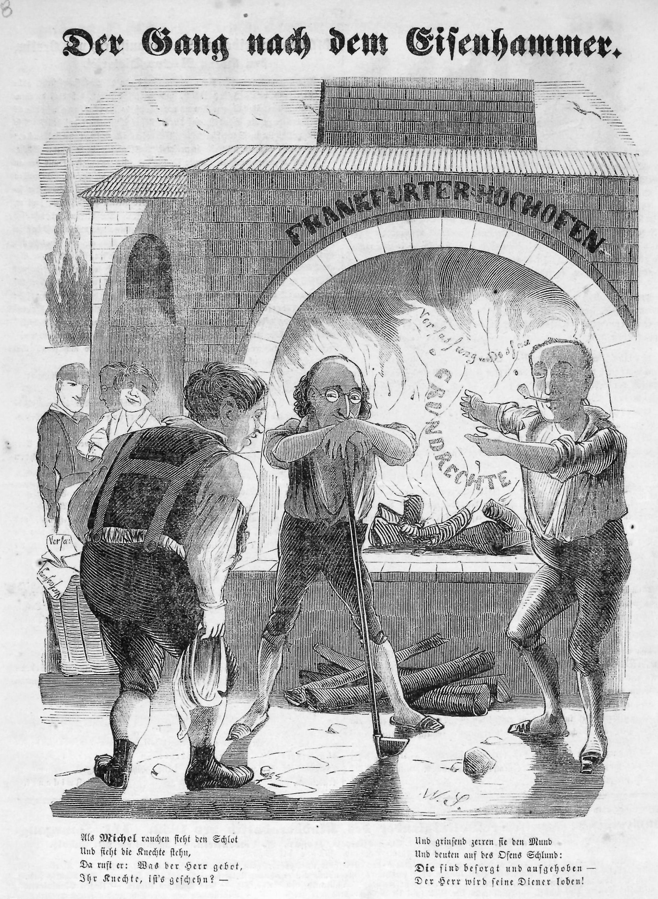 Karikatur, Kladderadatsch